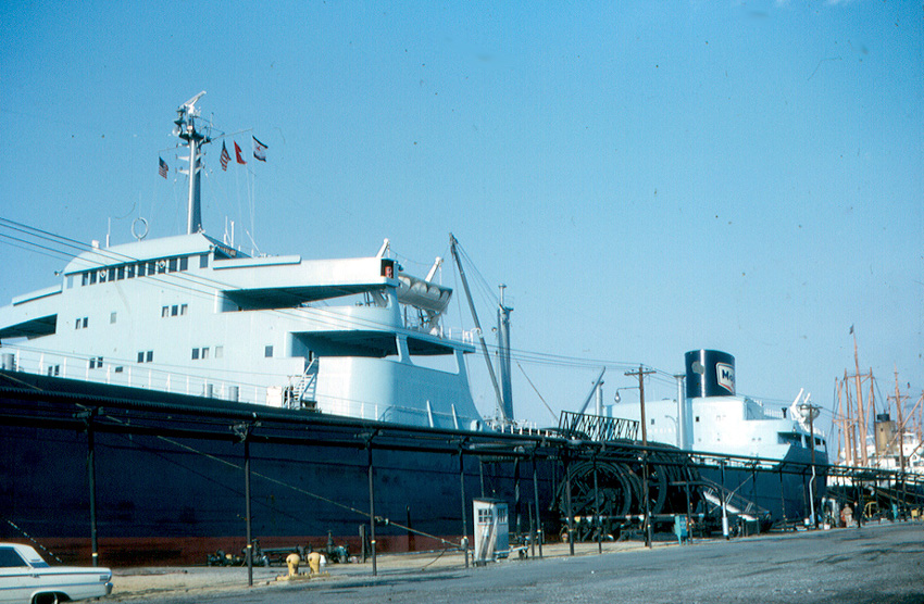 The "Mobil Valiant" normally sailed between the Middle East and Rotterdam. It came to Port of Paulsboro, New Jersey, where Mobil had a refinery, in March 1965.